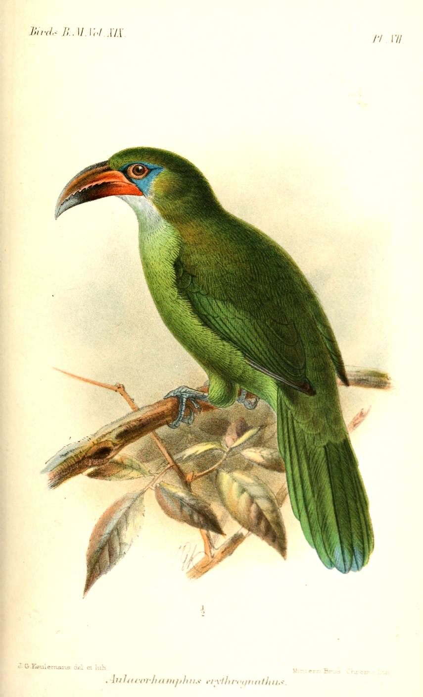 Aulacorhamphus erythrognathus = Aulacorhynchus sulcatus erythrognathus, Groove-billed Toucanet ssp.